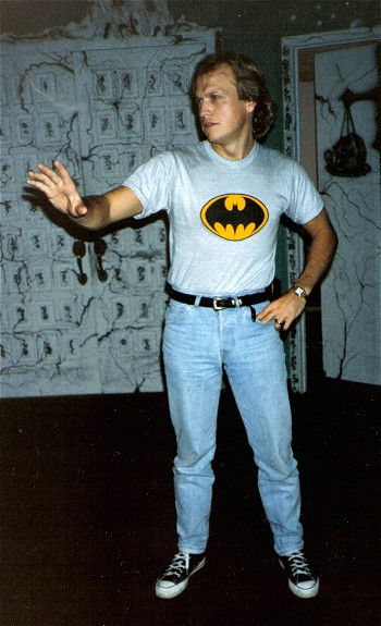 Mark King of Level 42 in Santa Clara, California - 1987